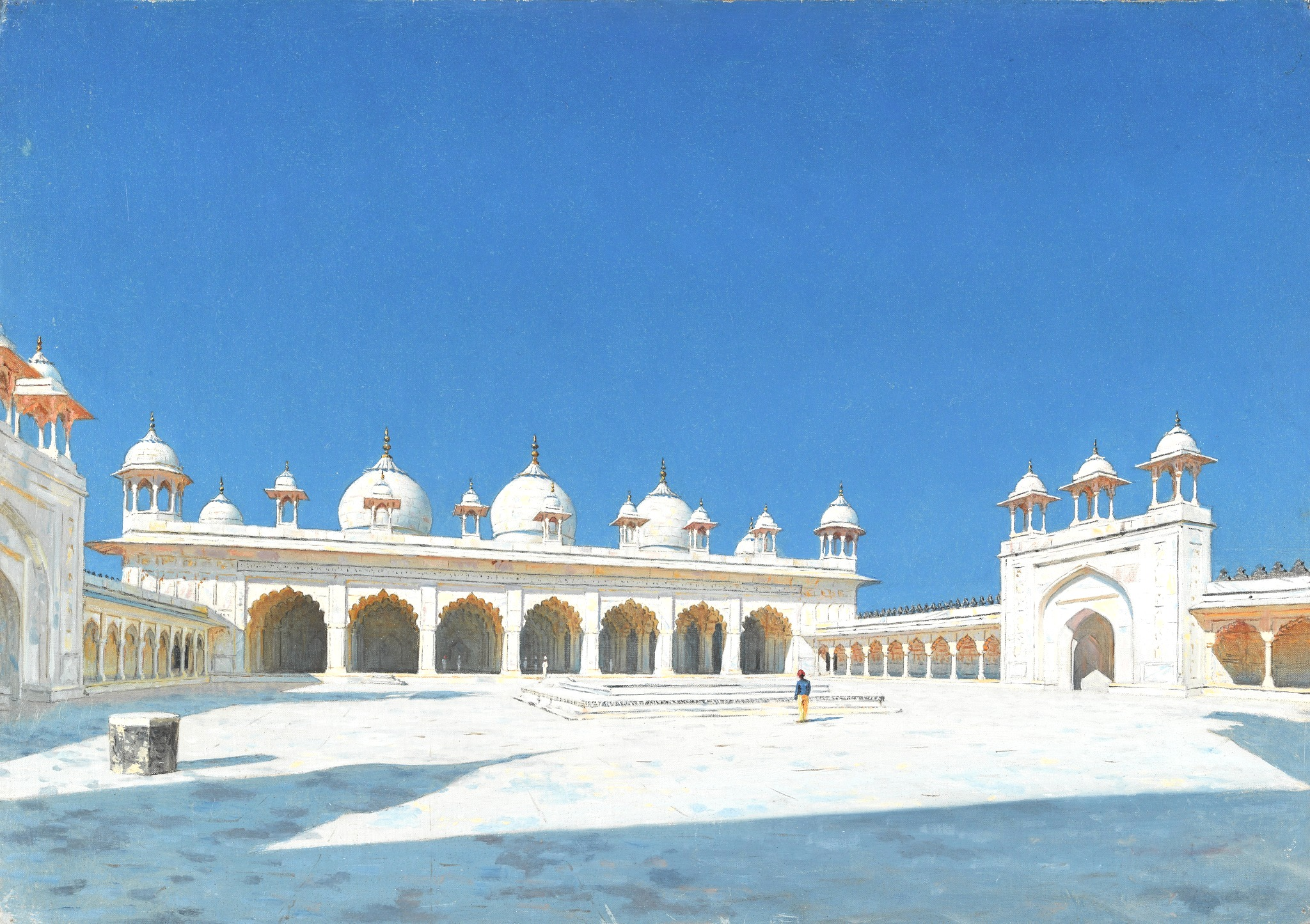 Moti Masjid ("Pearl Mosque") of Agra